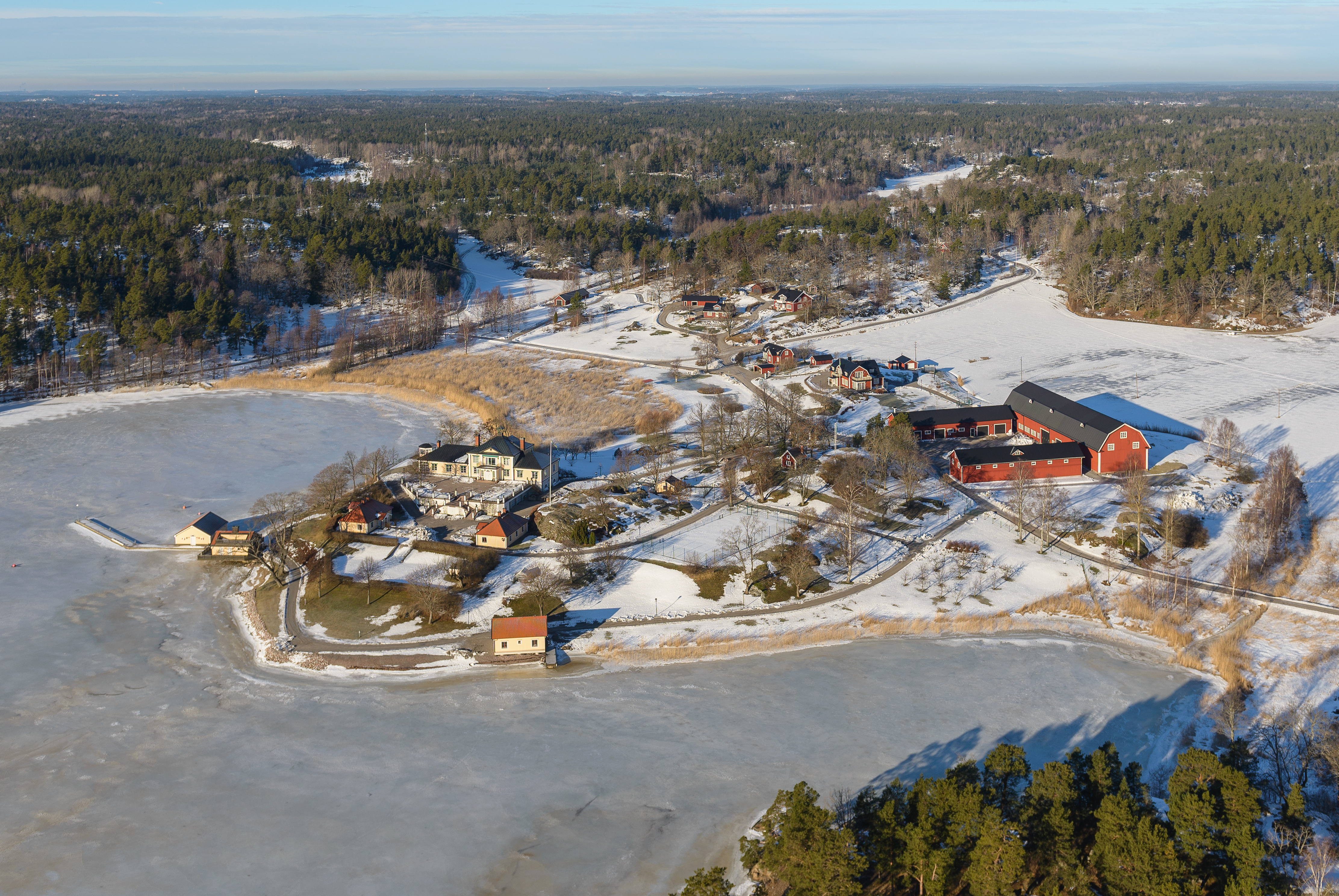 Brevik, a historic property in Värmdö municipality, Stockholm archipelago.